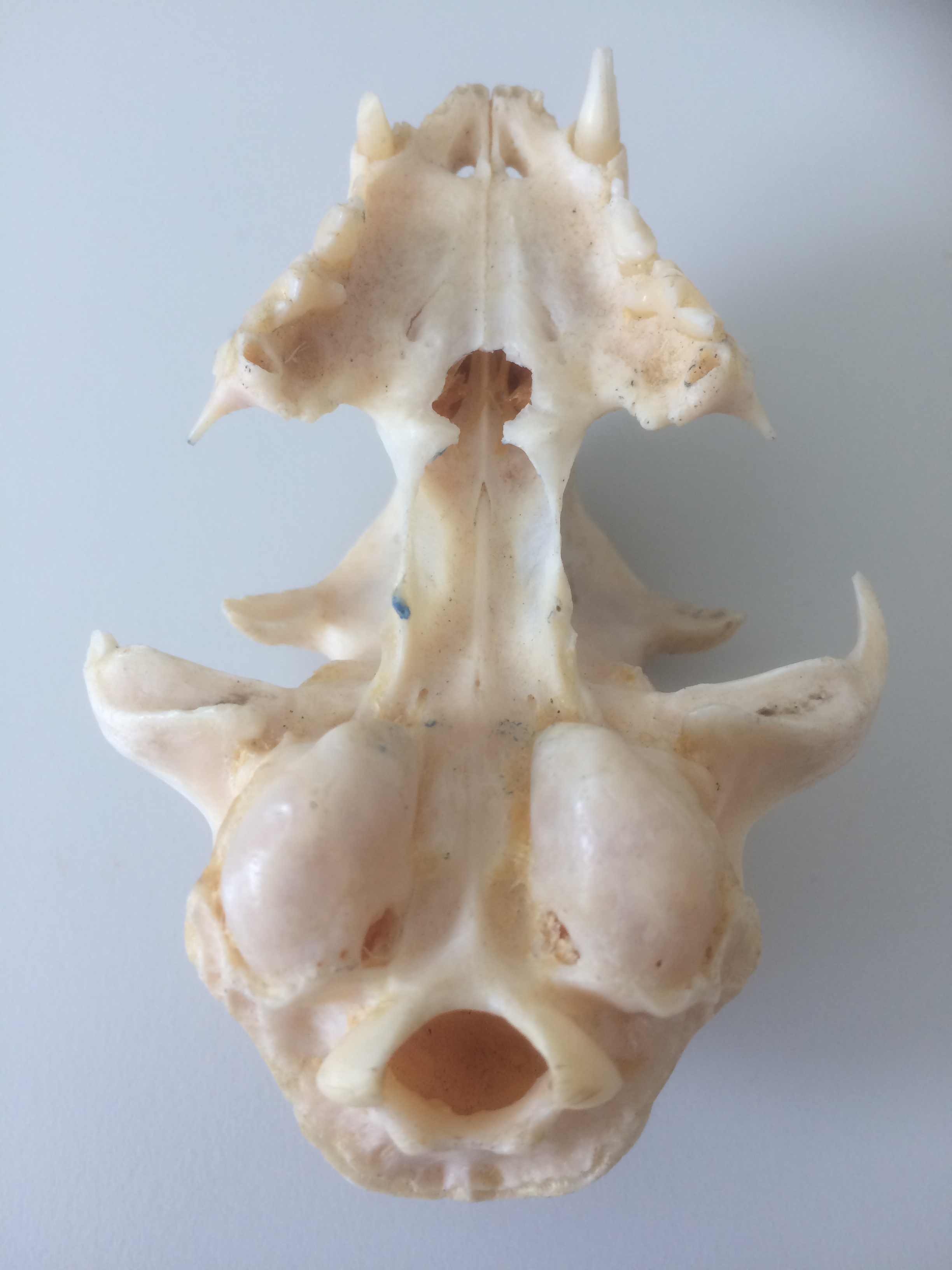 Underside of the skull of a young cat, showing palatine, bullae and foramen magnum.